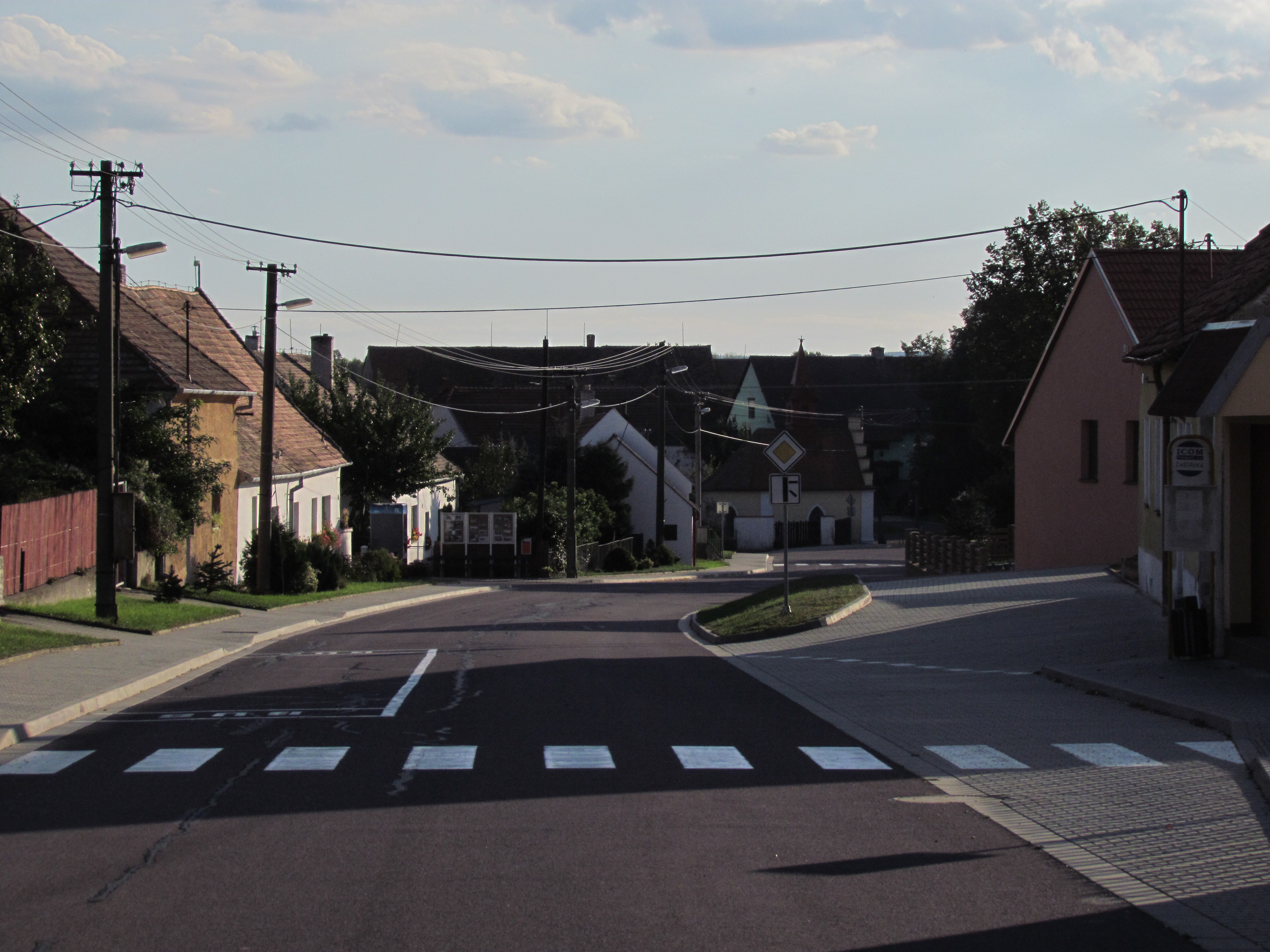 Center of Zvěrkovice, Třebíč District.